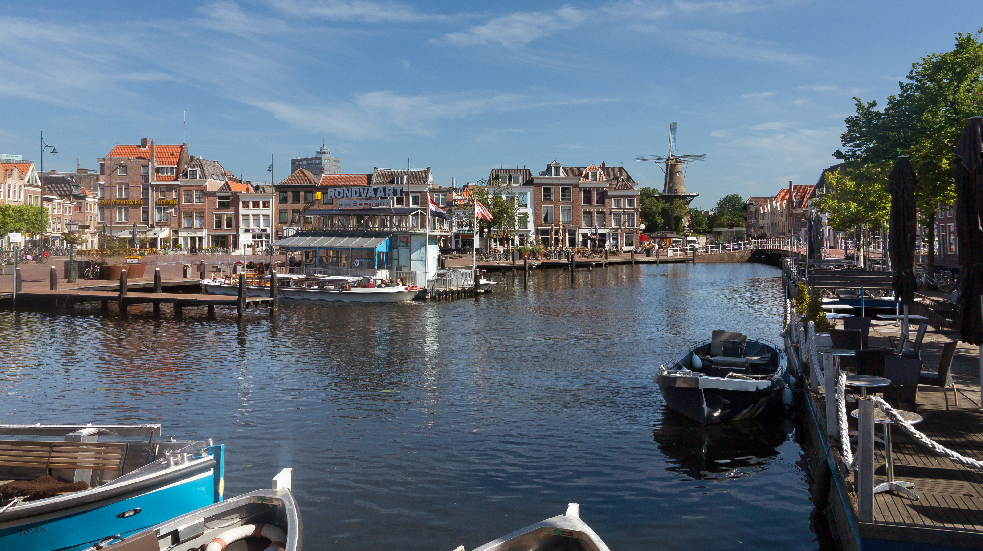 Leiden, view from the Blauwpoortsbrug to Beestenmarkt, shipping line Rembrandt and windmill en Molen de Valk